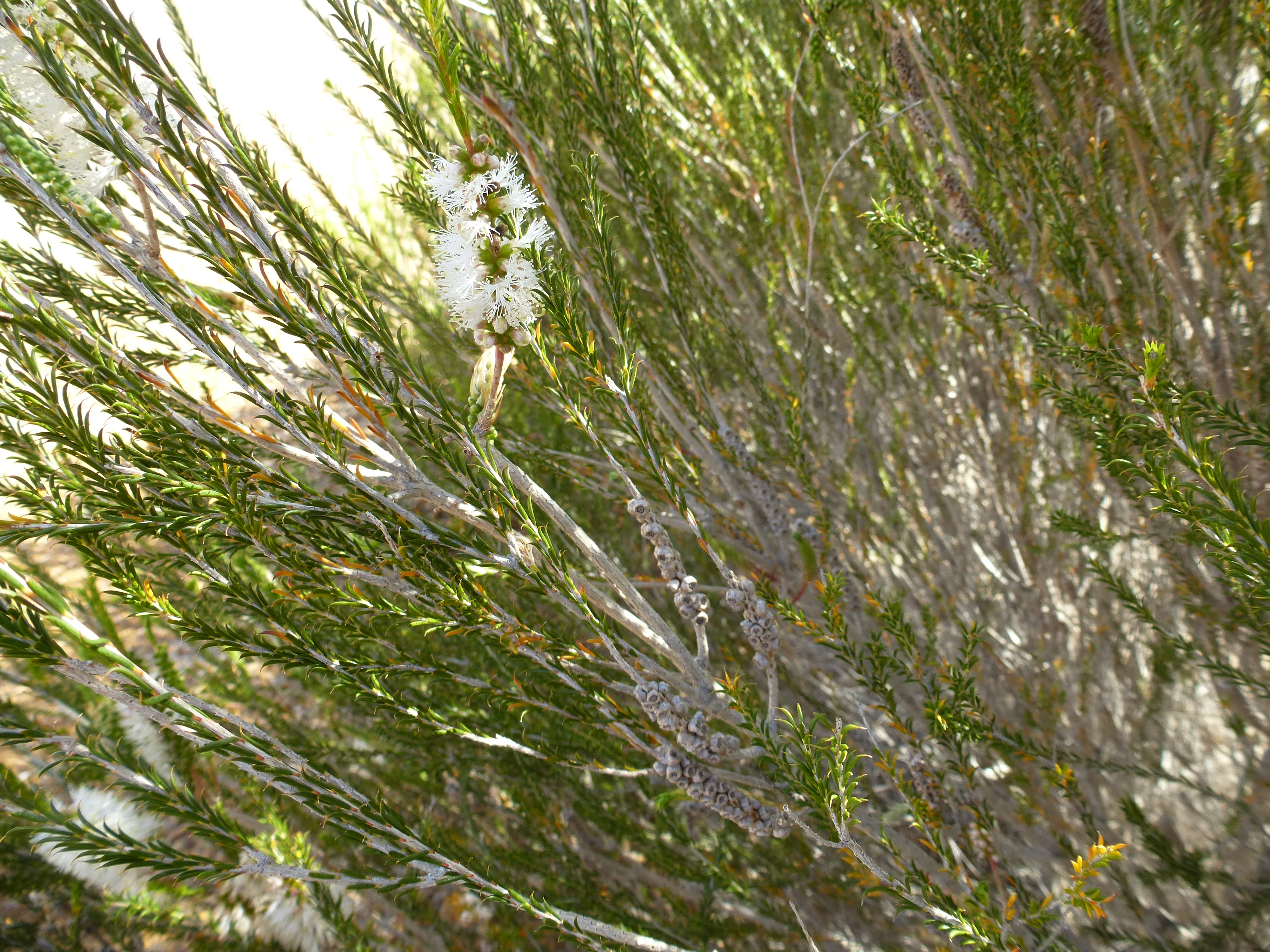 Melaleuca eleuterostachya 53 km W of Esperance